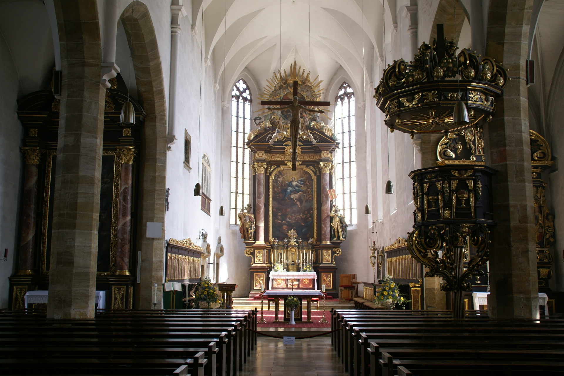 Interior of St. Mary Church in Sulzbach-Rosenberg (Germany)